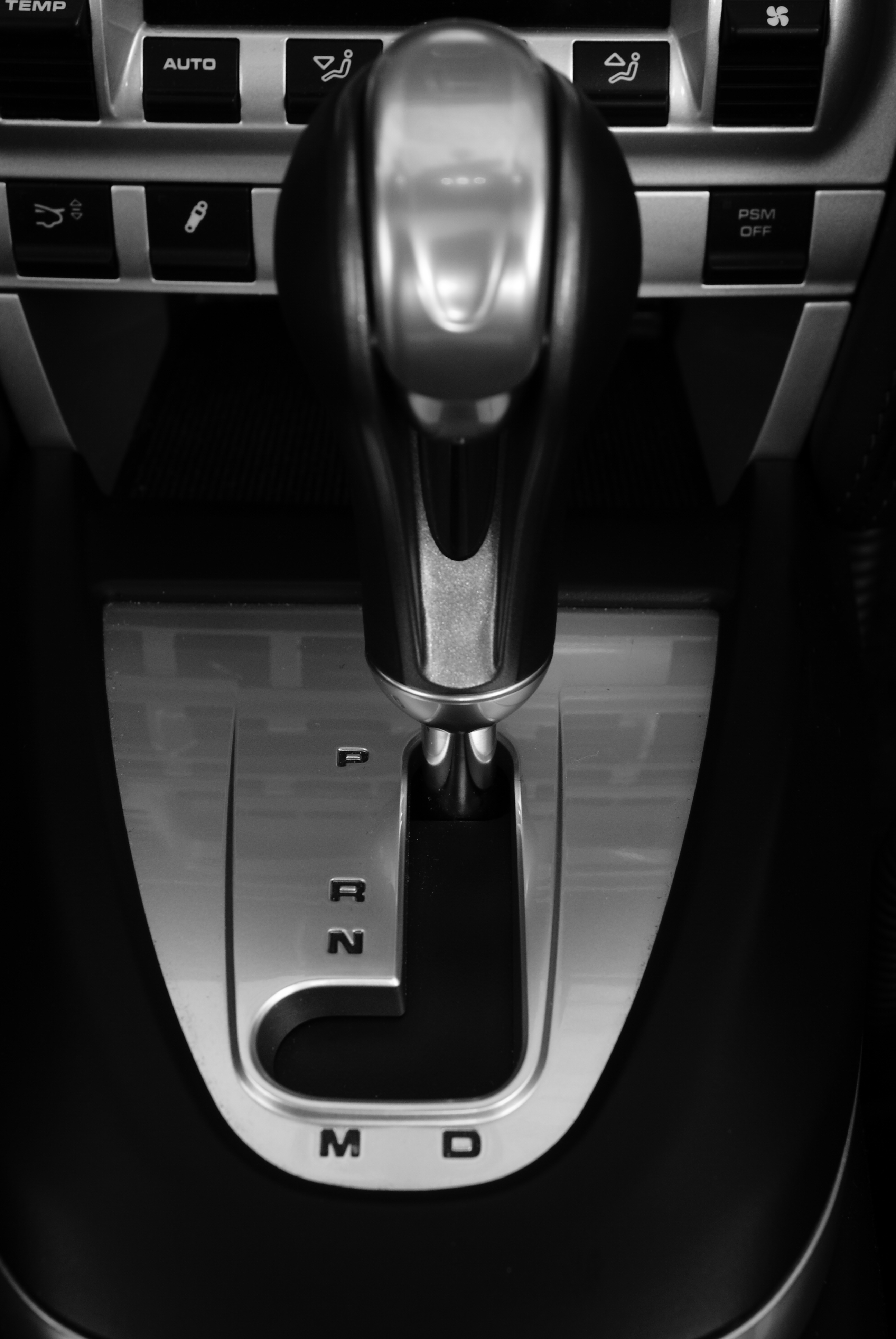 Porsche 911 (997) Targa Gearbox Tiptronic